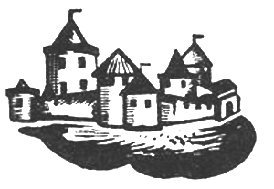 Vorša Castle